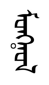 Monggol in Todo bicig